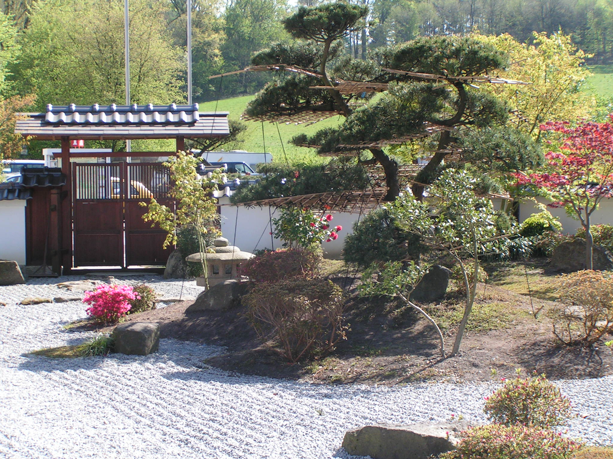 Japanese Garden in Gadderbaum, Bielefeld, Germany.